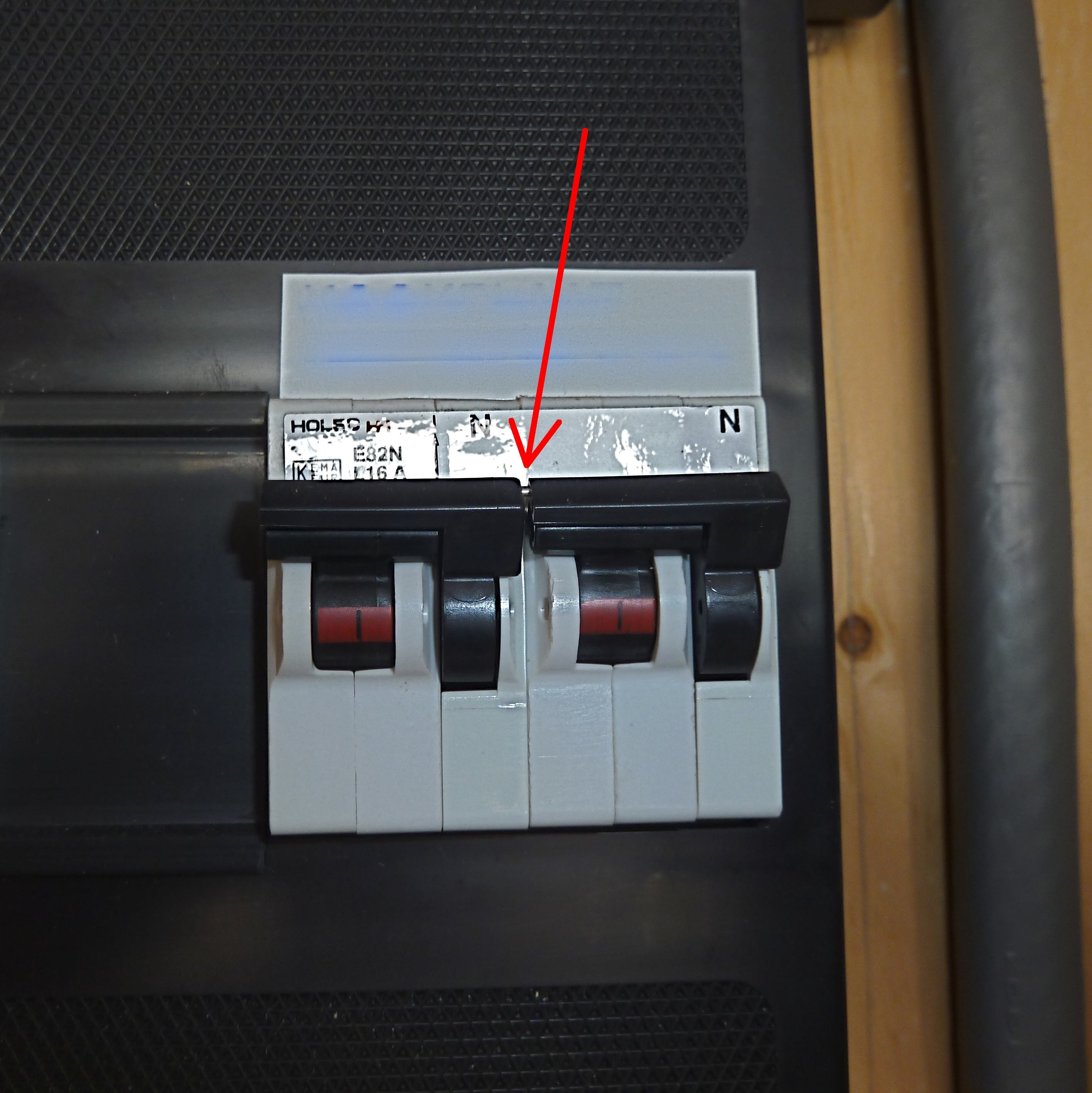 Stove circuit-breaker